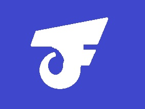 Flag of Shimotsuma Ibaraki